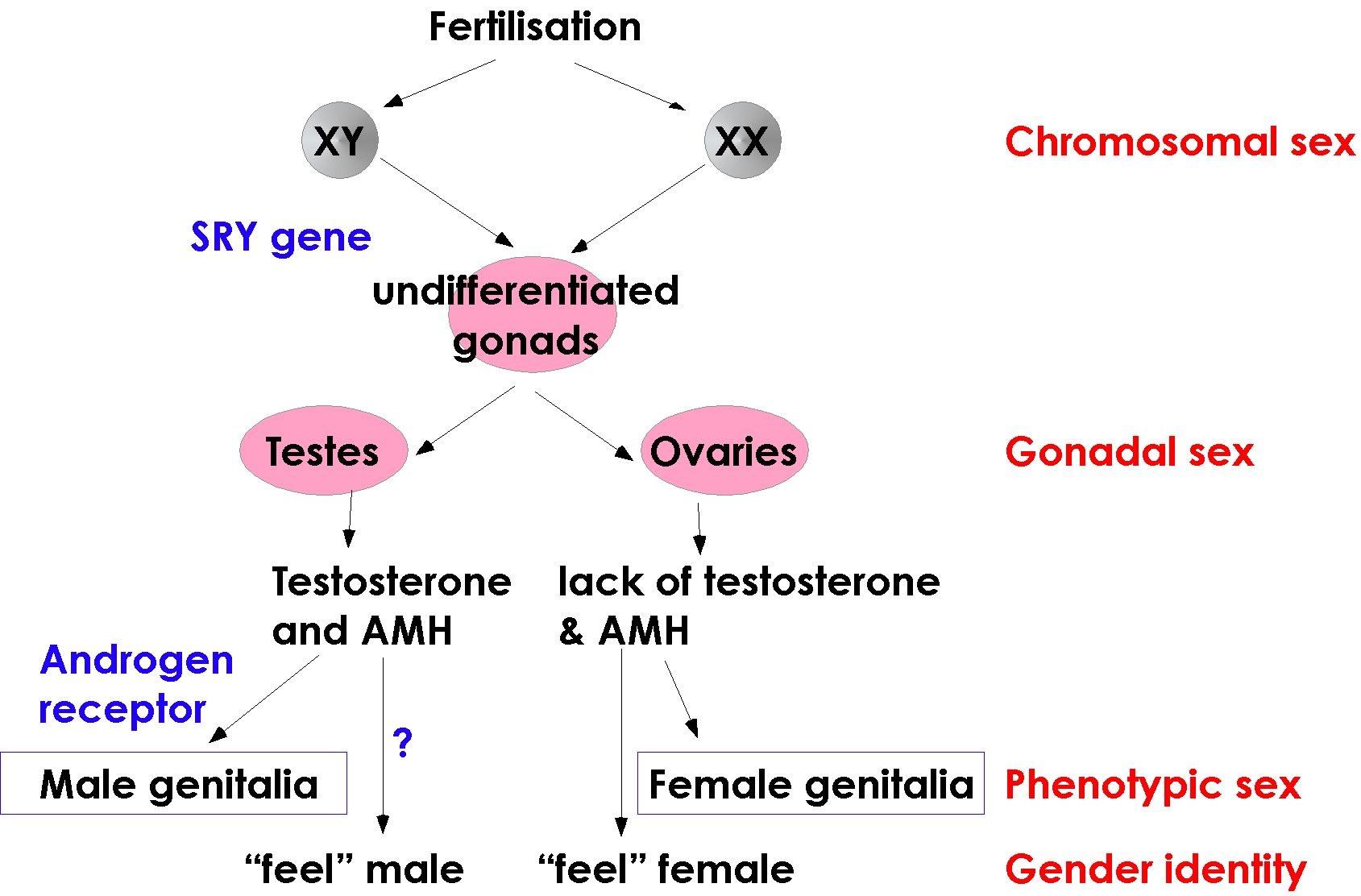 Schematic of sexual differentiation in humans